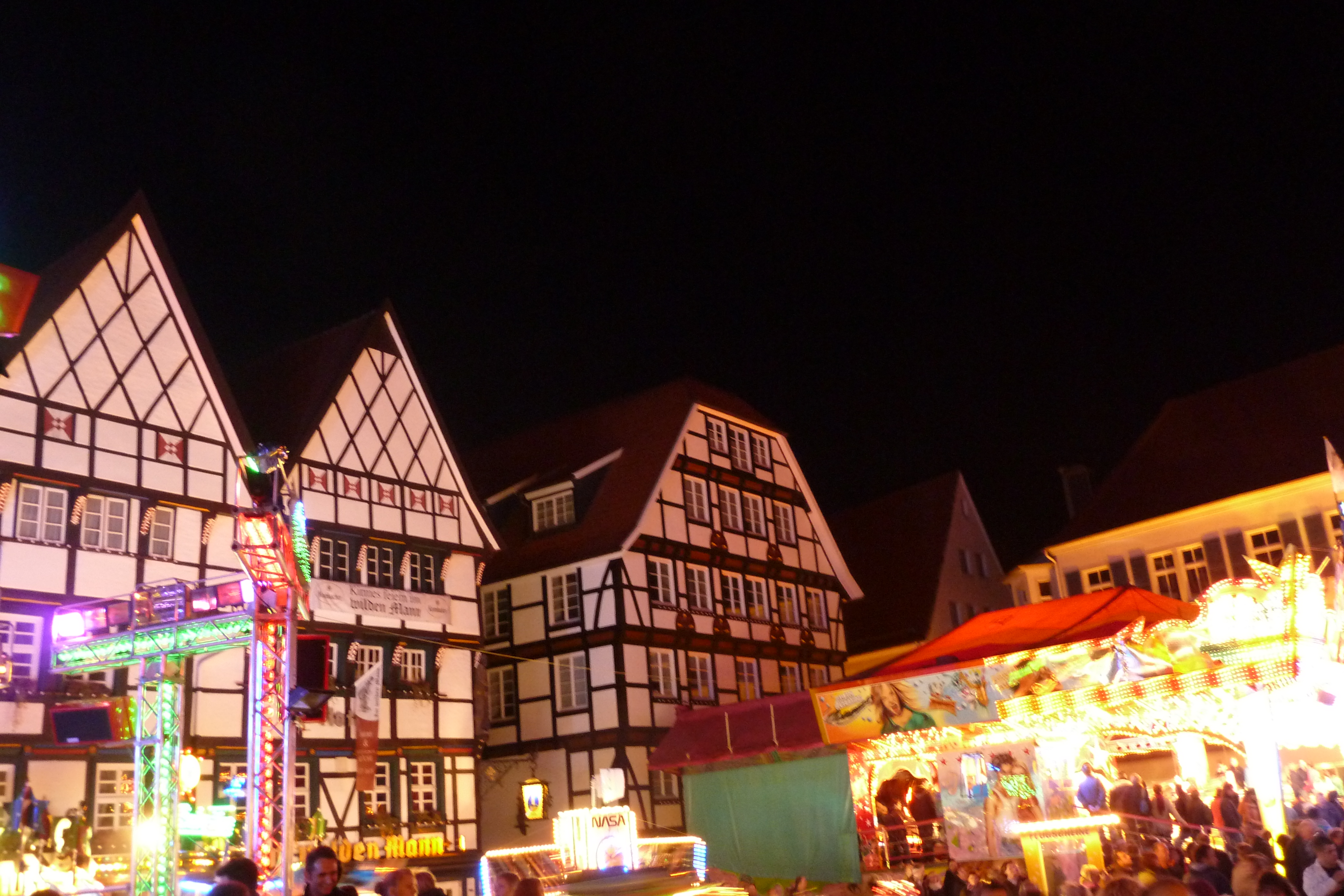 The marked place in Soest, Germany at the All Saints Fair 2011.